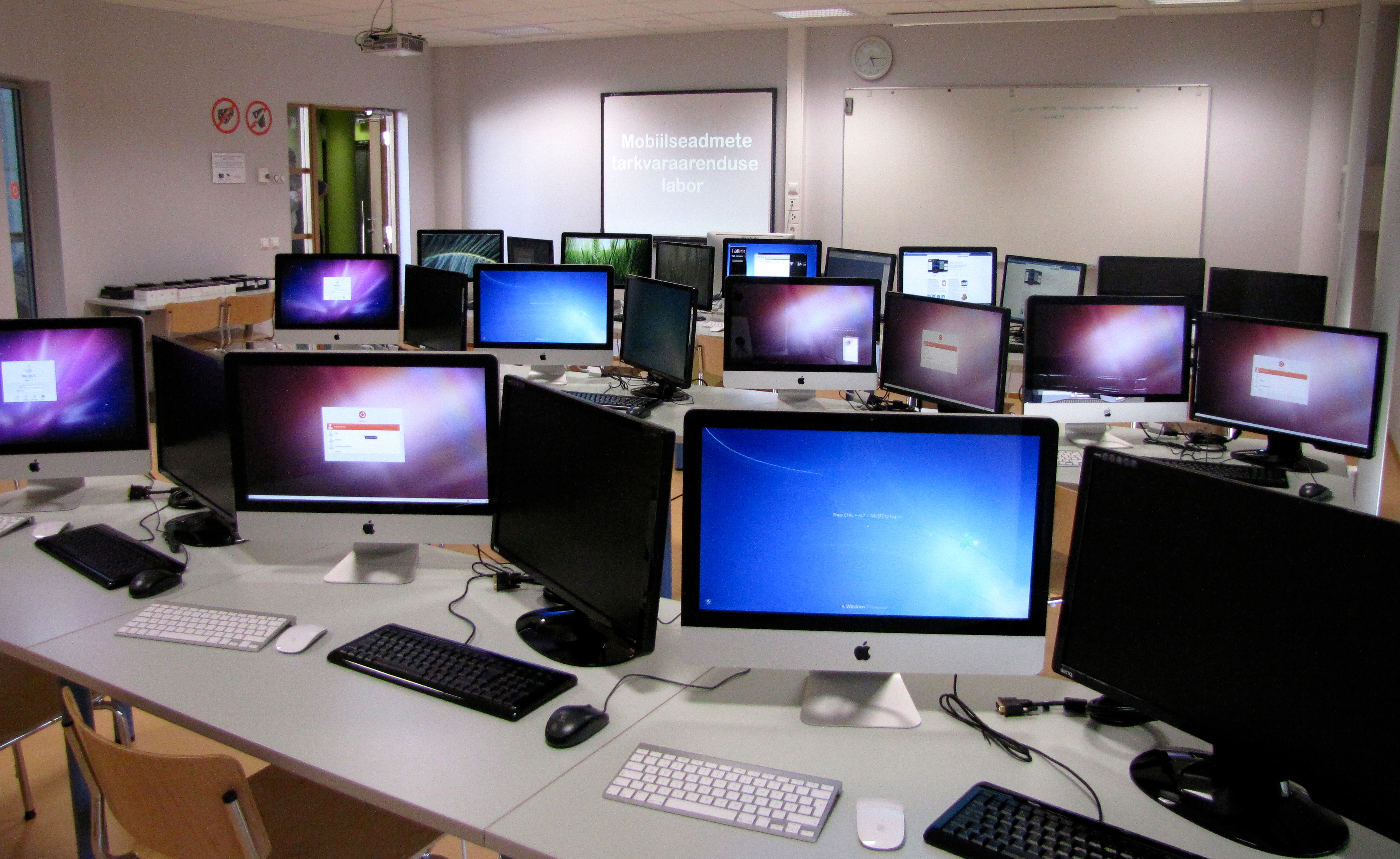 Mobile software development laboratory in The Estonian Information Technology CollegeEesti: Mobiilseadmete tarkvaraarenduse labor Eesti Infotehnoloogia Kolledžis